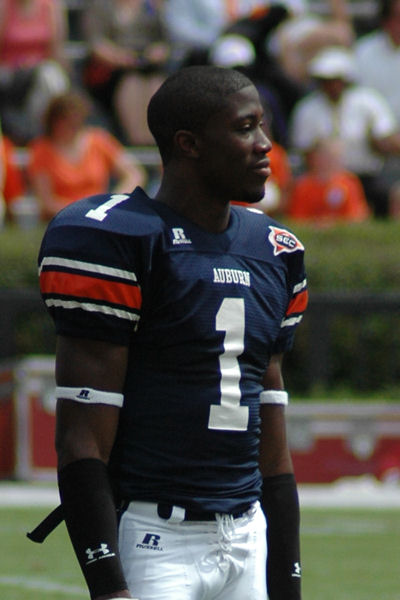 Former Auburn University college football player Devin Aromashodu prior to a game in 2005